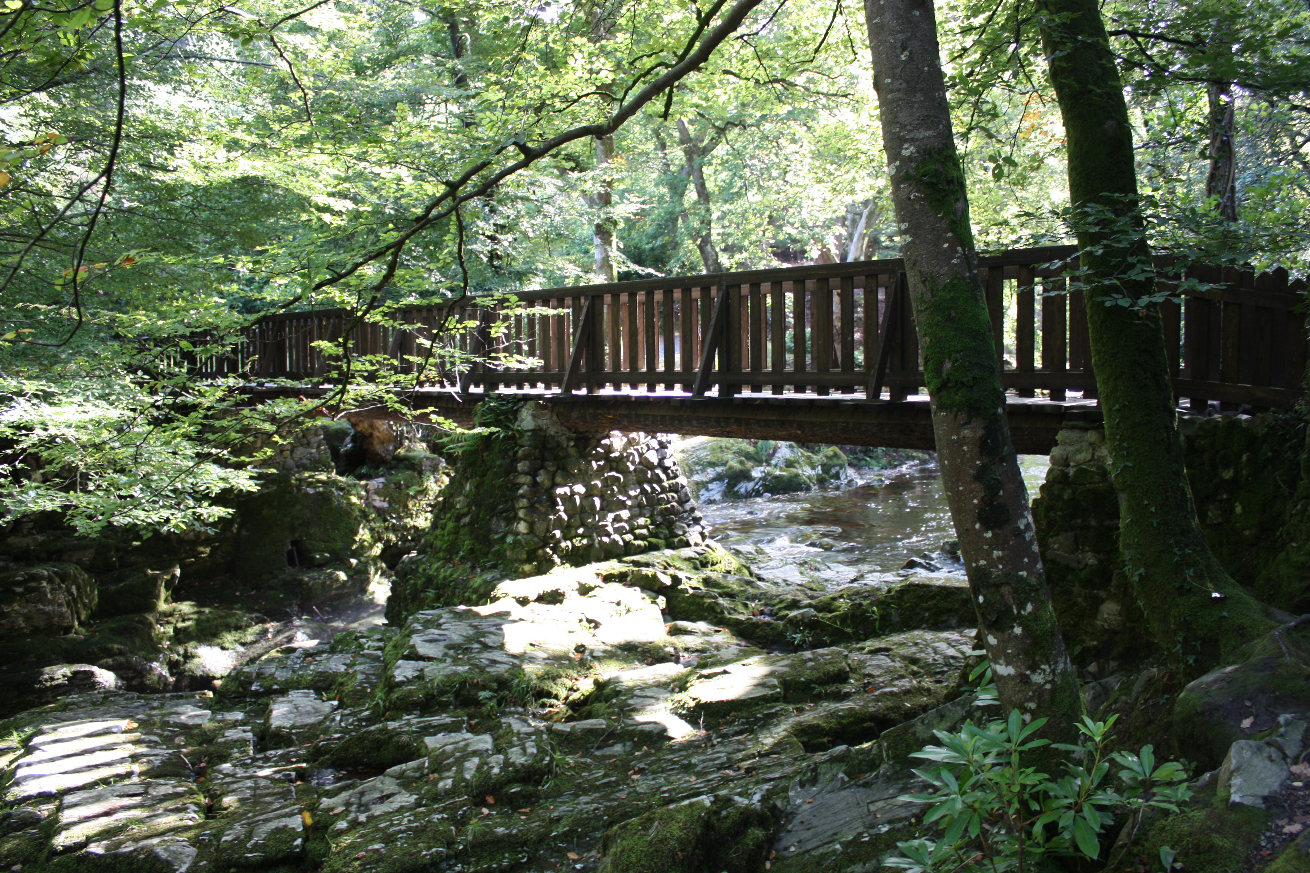 Bridge over Shimna River, Tollymore Forest Park, Bryansford, County Down, Northern Ireland, September 2010